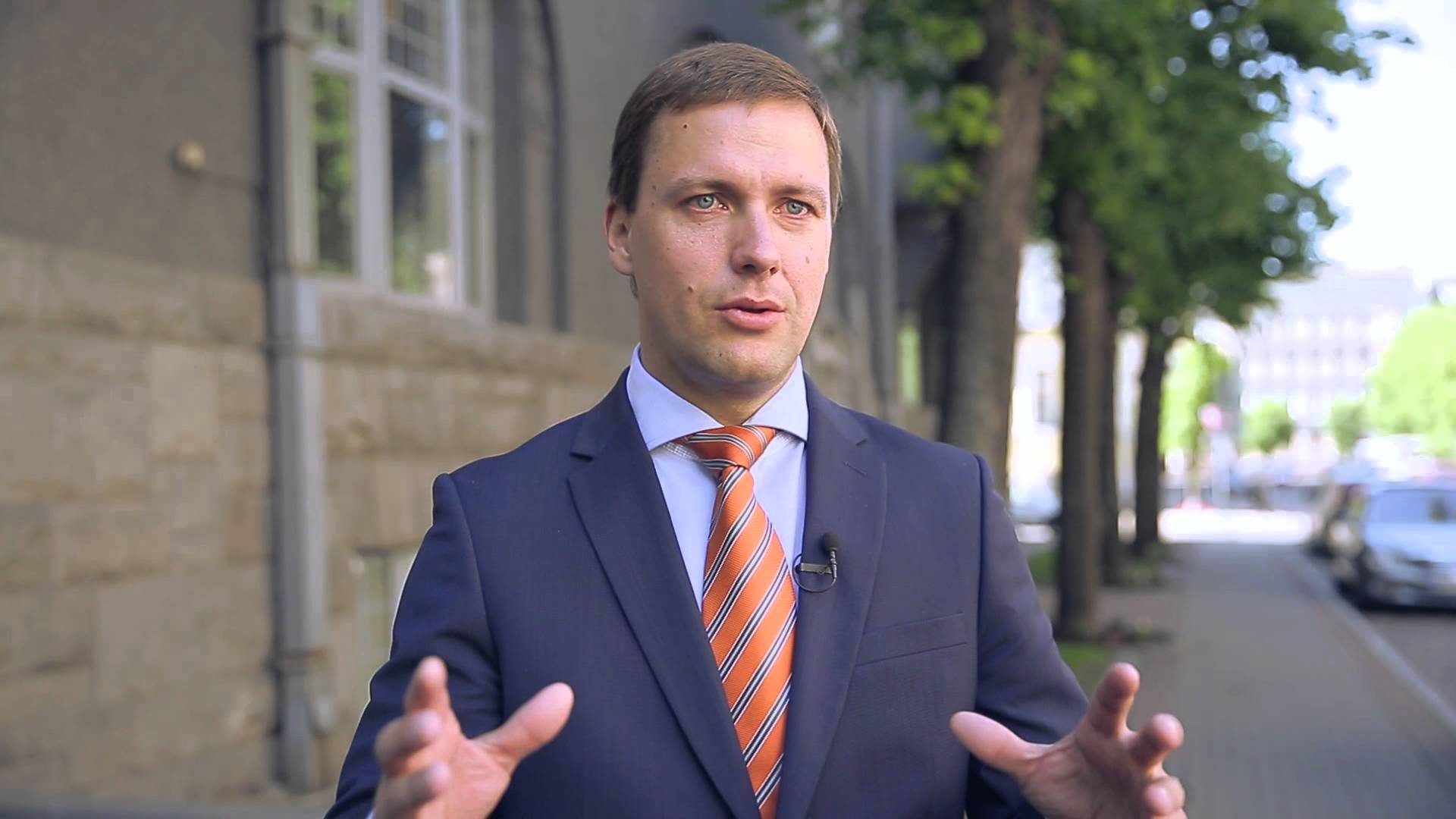 Rozenbergs Janis